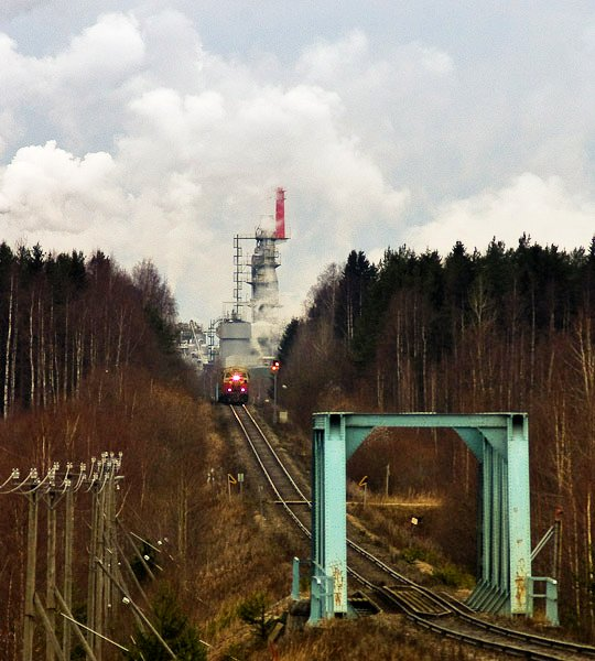 Freight train departing from Äänekoski, Finland. Tower behind belongs to Metsä-Botnia pulp mill.